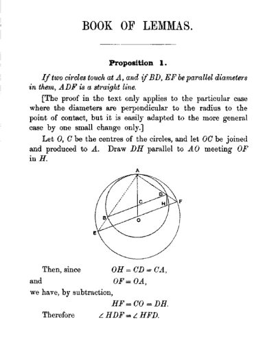 Page 301 of "The Works of Archimedes" -- The "Book of Lemmas". Digitized by Google.